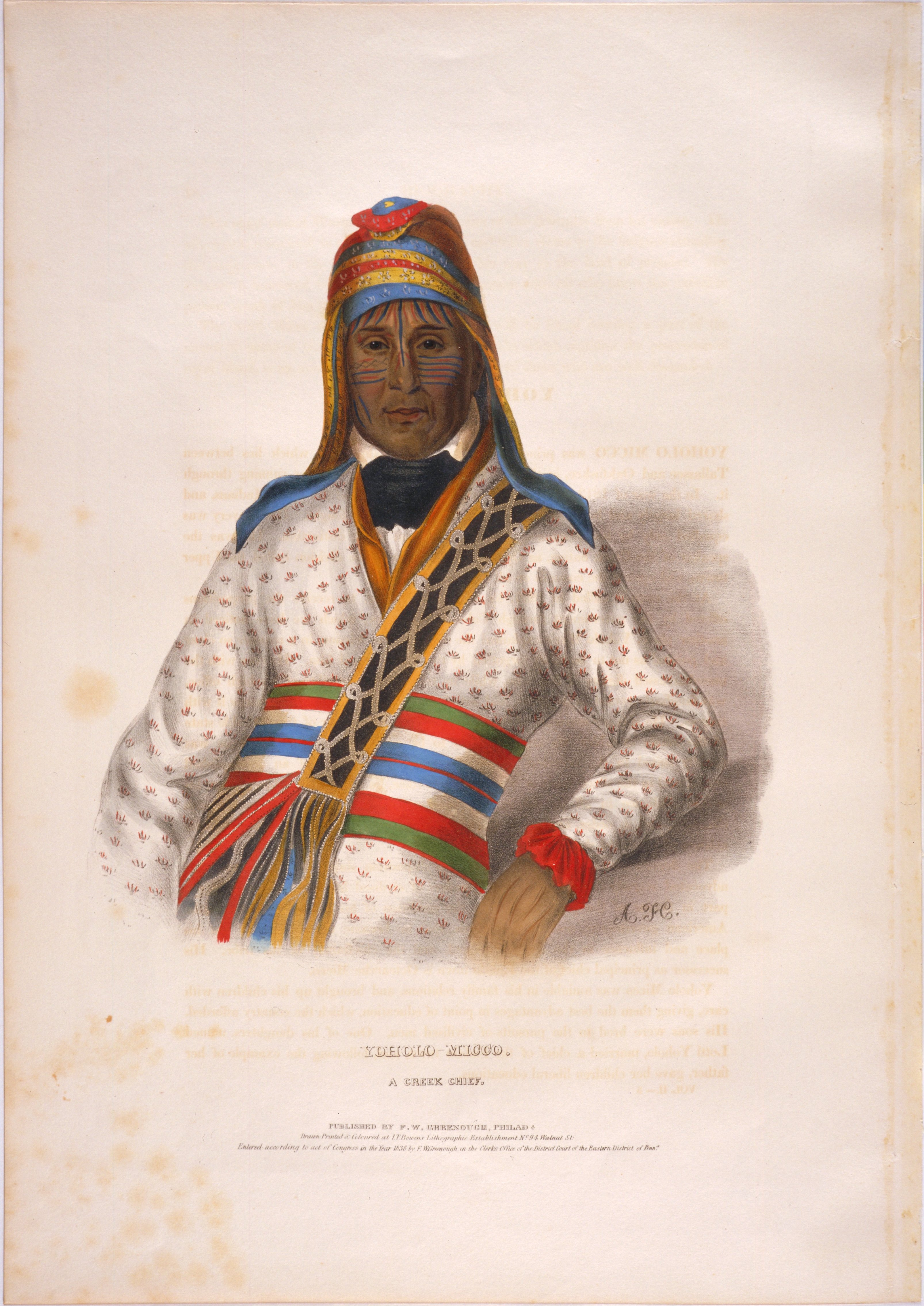 Yoholo-Micco, a Creek chief. McKenney, Thomas Loraine, 1785-1859 & Hall, James, 1793-1868. History of the Indian Tribes of North America, with Biographical Sketches and Anecdotes of the Principal Chief. Embellished with One Hundred and Twenty Portraits, from the Indian Gallery in the Department of War, at Washington. Philadelphia: F.W. Greenough, 1838-1844.